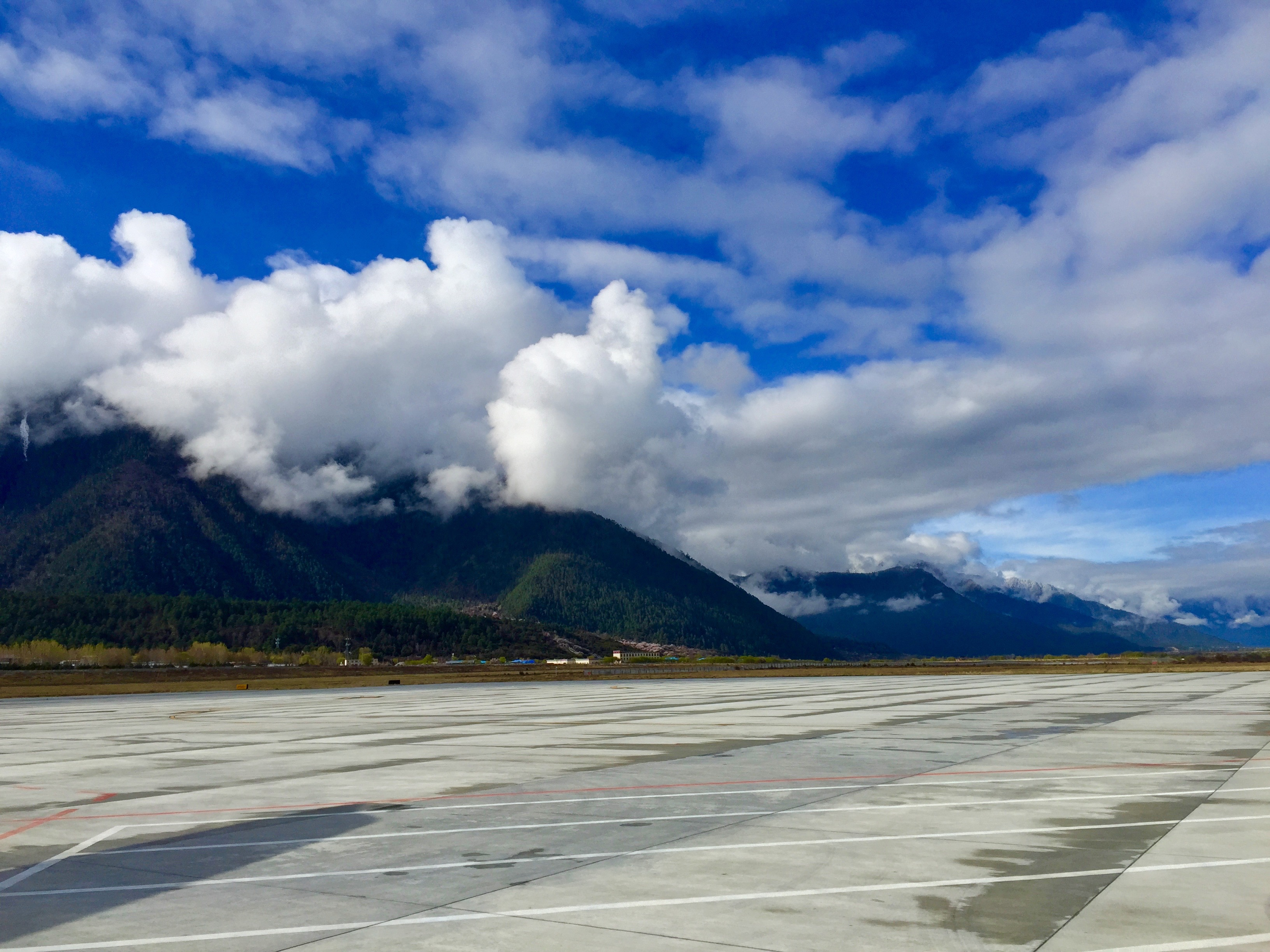 Mainling, Nyingchi, Tibet, China